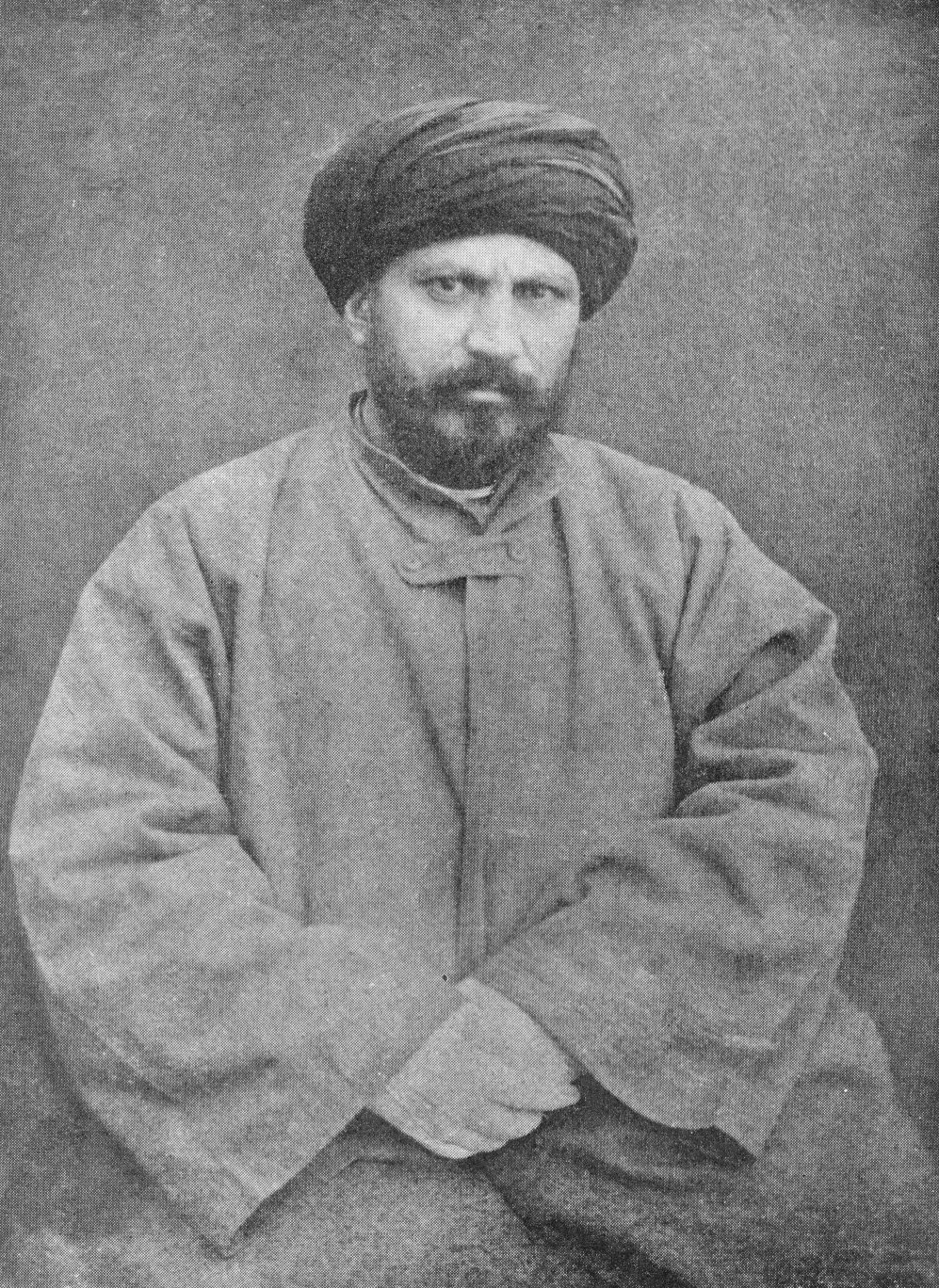 Dschamal ad-Din al-Afghani